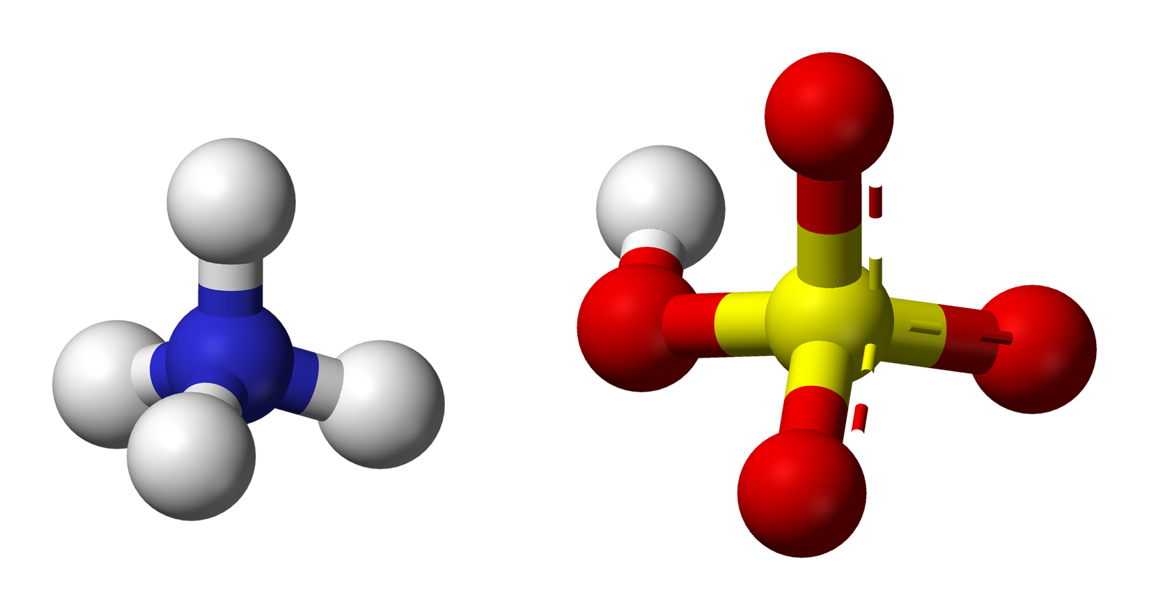 Ball-and-stick model of ammonium bisulfate, showing an ammonium cation (left) and a hydrogensulfate anion (right).